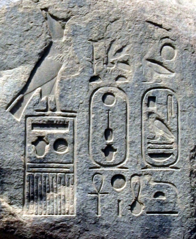 Psammetichus II. Cartouche. Aswan. IMG_6498